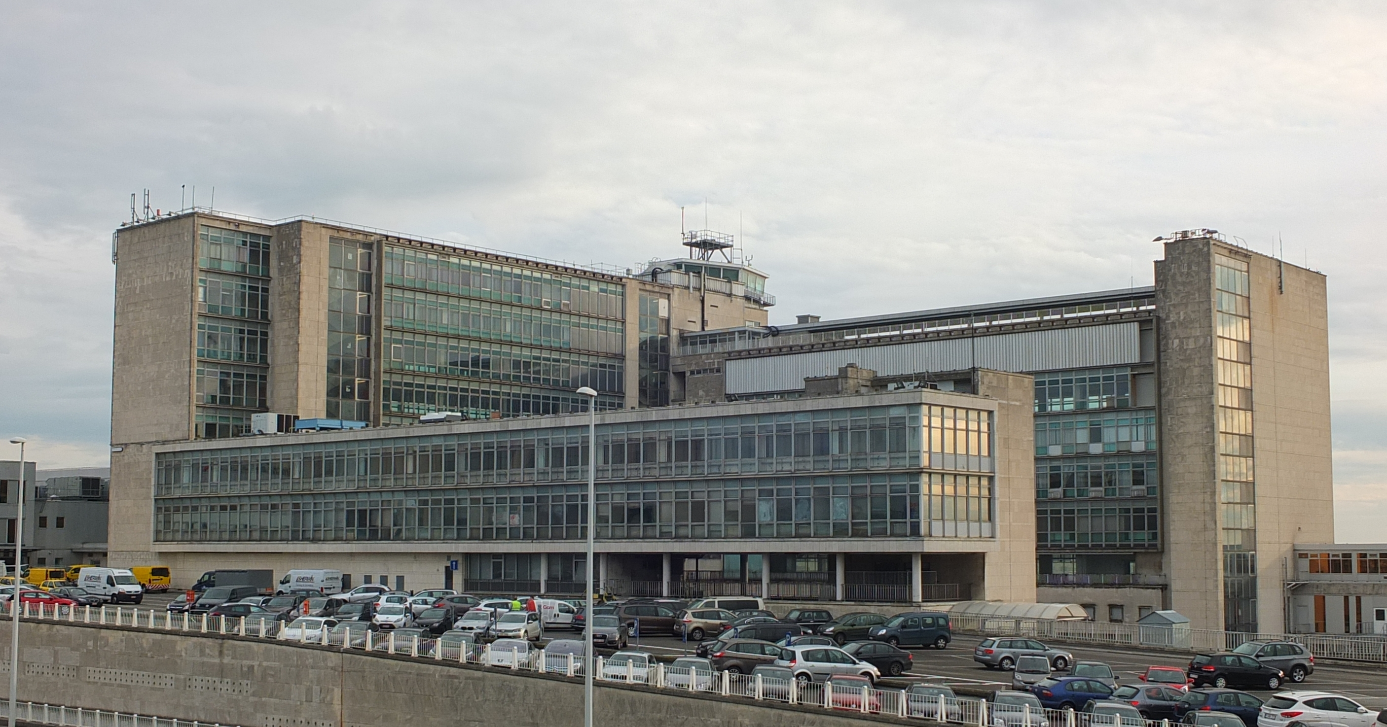 The old terminal building of Zaventem Brussels Airport.